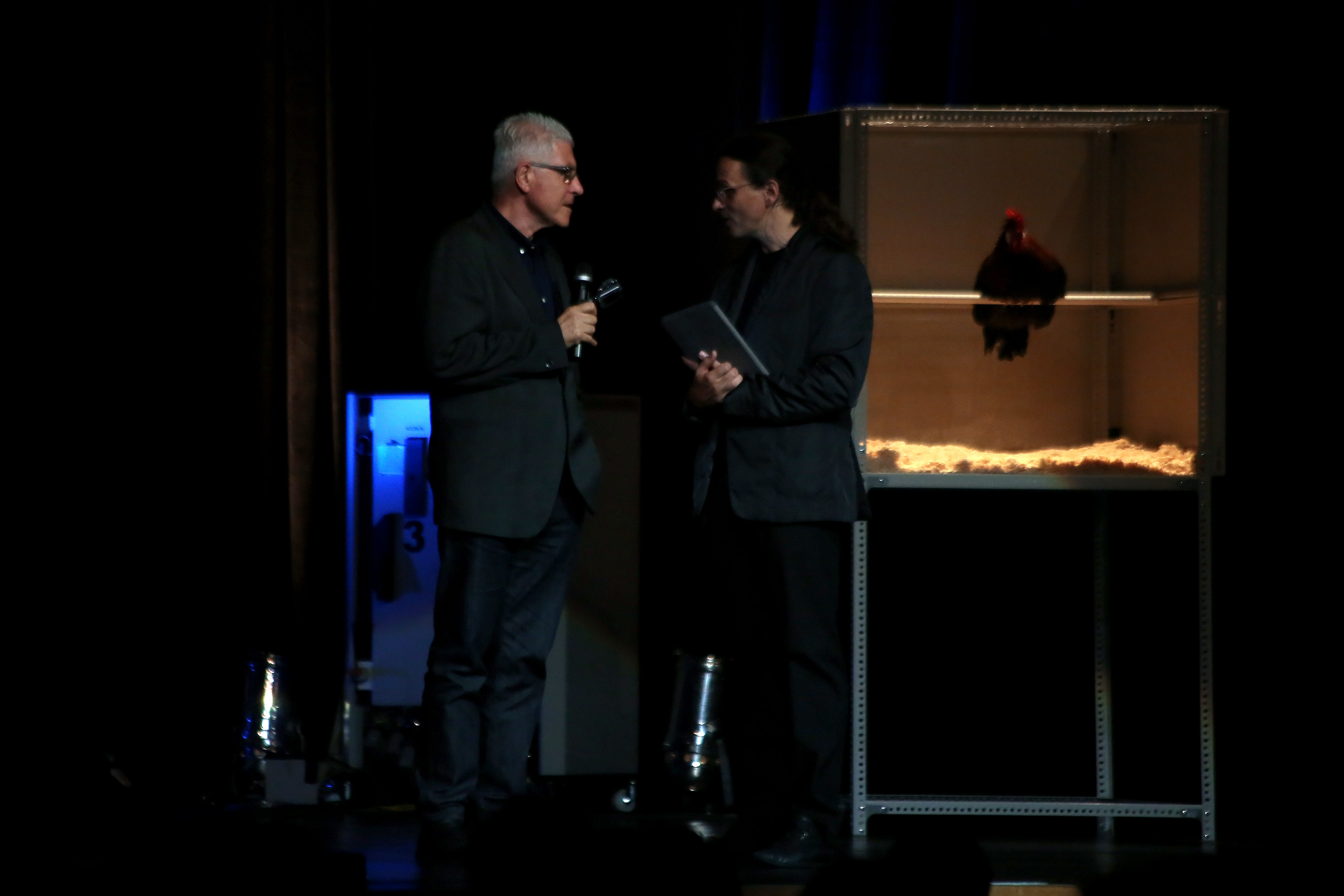 Gerfried Stocker and Bill Fontana, who created "Acoustic Time Travel" during the sponsored artist in residence programme Collide@CERN, Prix Ars Electronica 2013; Brucknerhaus, Linz, Upper Austria.